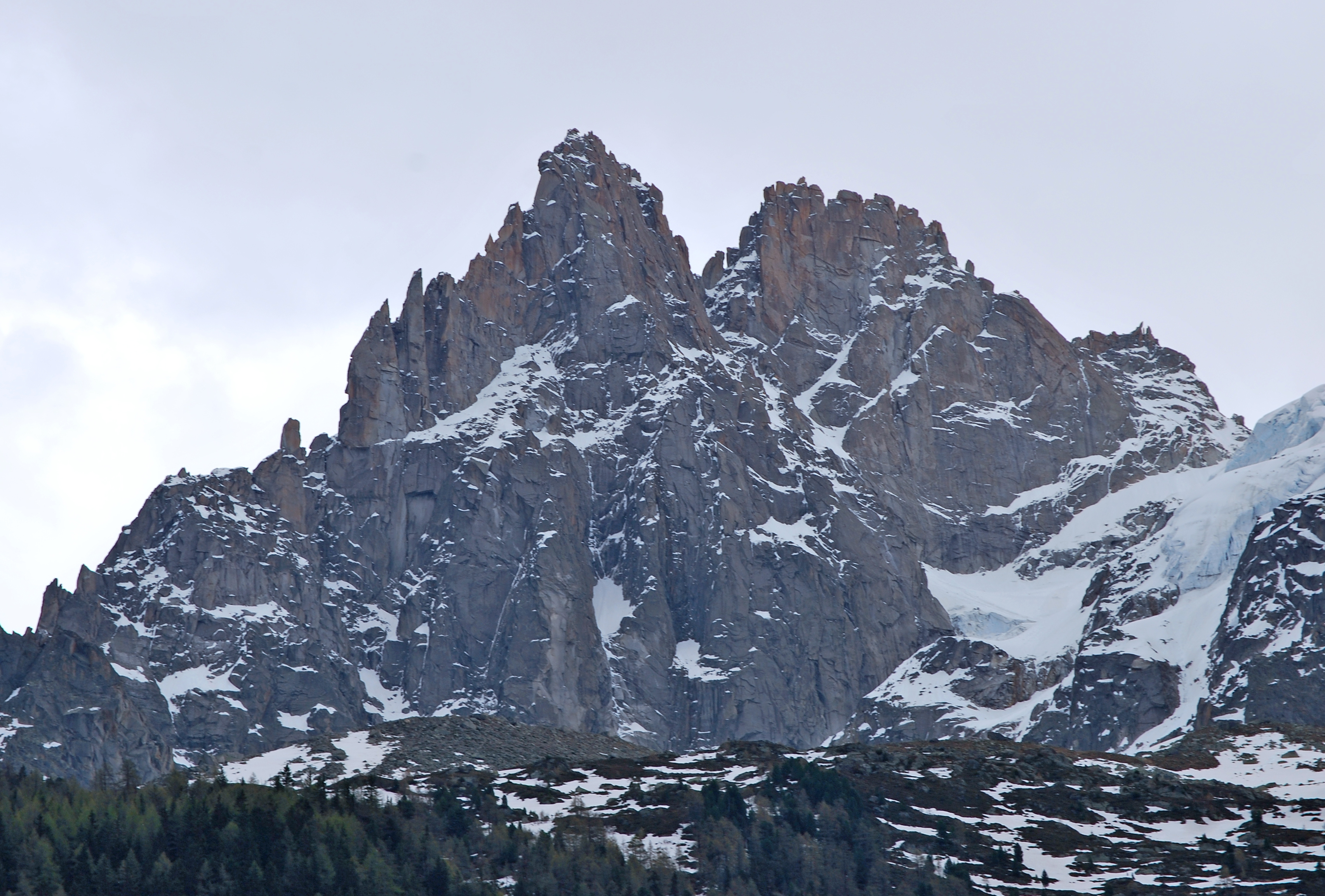 Aiguille des Grands Charmoz left, Aiguille du Grépon right. From Chamonix